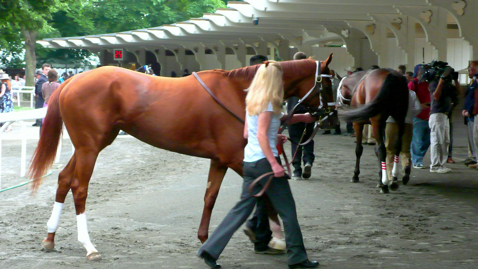 Rags to Riches at the 2007 Belmont Stakes. She became only the third filly to win the Belmont and was first since the 1905 winner Tanya.